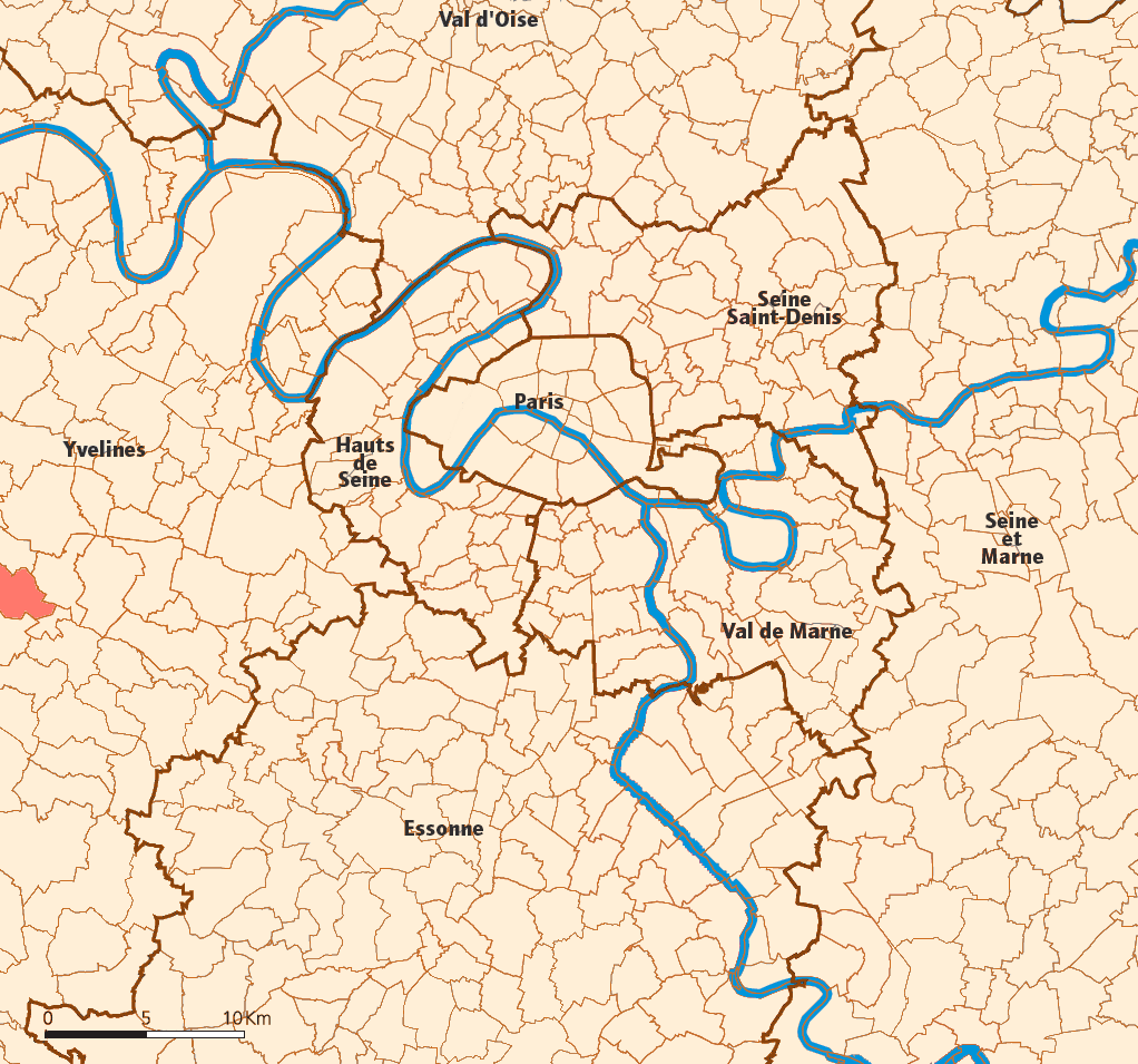 Created map myself.